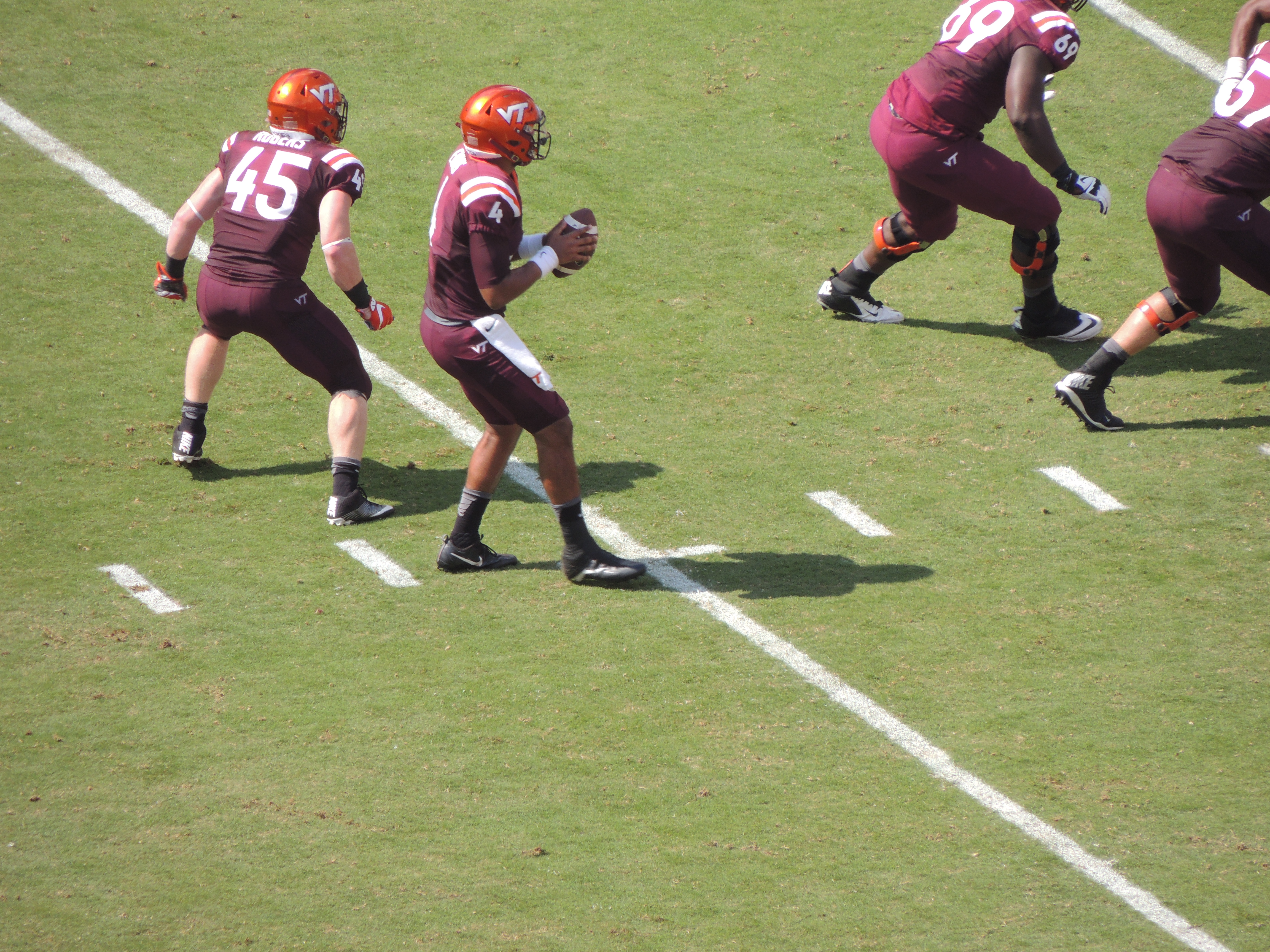 Jerod Evans (Number 4), quarterback for the Virginia Tech Hokies, dropping back to throw a pass on September 24, 2016 in Lane Stadium, Blacksburg, VA. The game was against the East Carolina Pirates. The Hokies won 54-17. Number 45 is Sam Rogers.